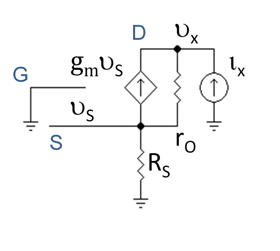 Common gate MOSFET output resistance